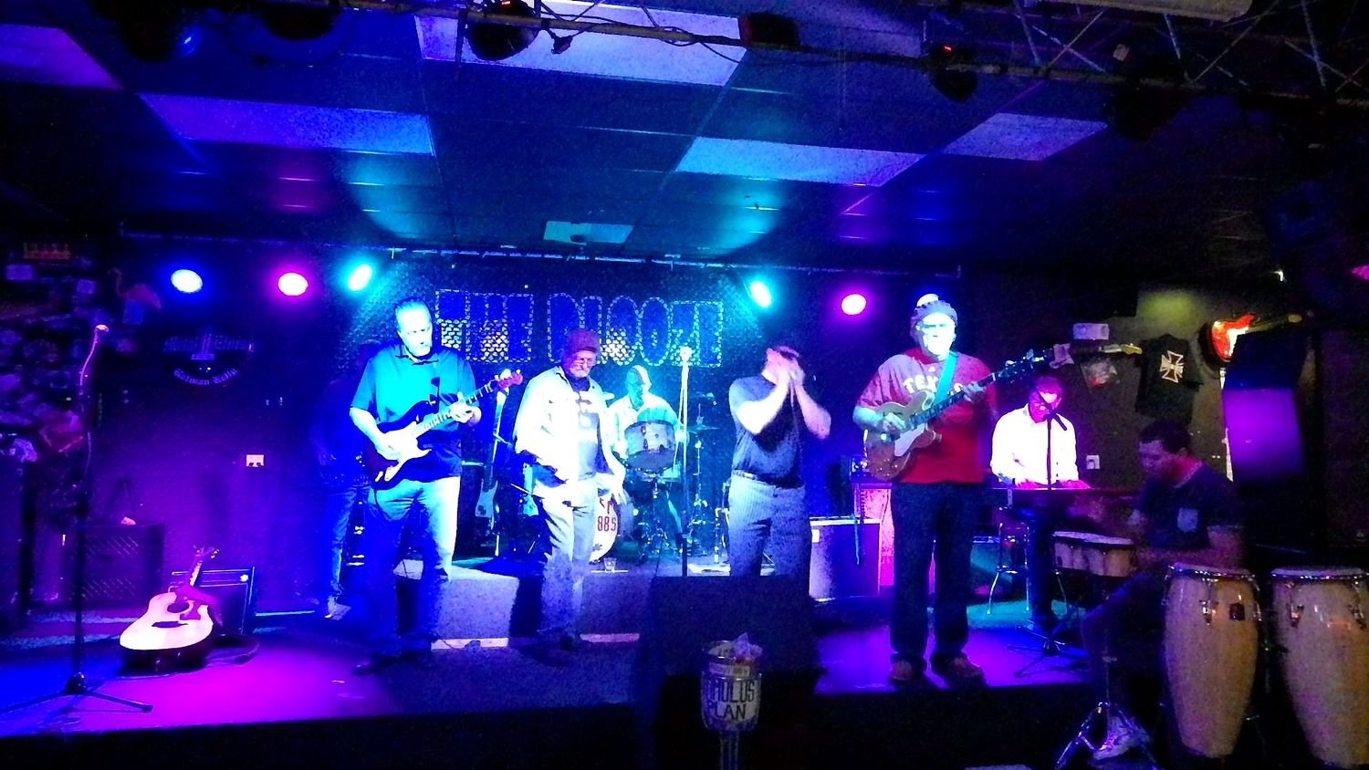 Open mic blues night, Phoenix Arizona, USA, Jan. 11, 2015